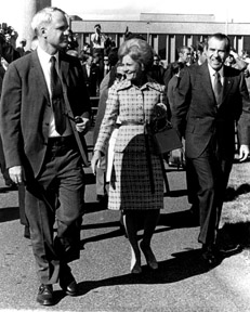 James R. Schlesinger, Chairman of the United States Atomic Energy Commission, with President Richard M. Nixon and First Lady Pat Nixon at the AEC's Hanford Site in Washington State.